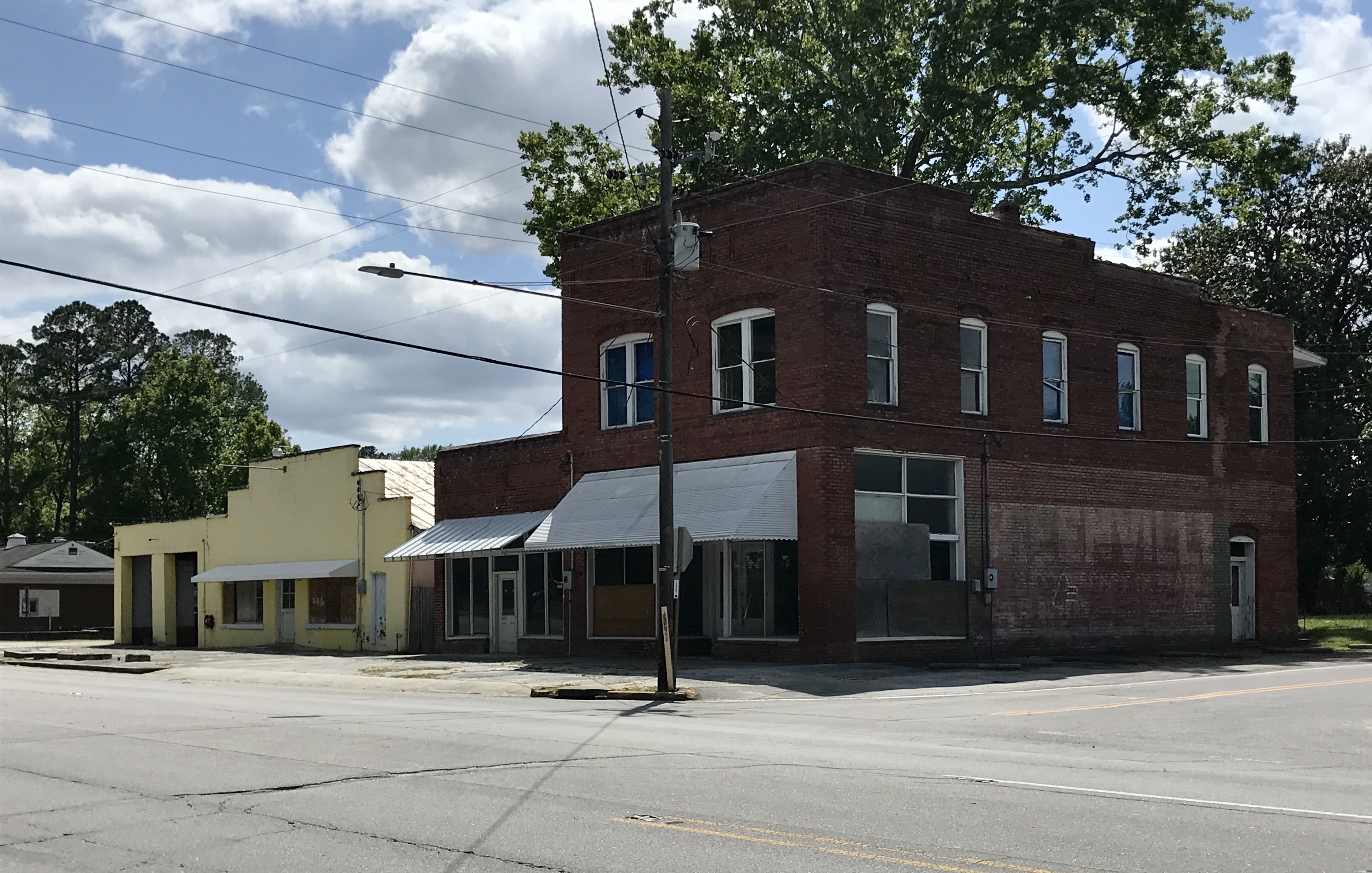 Commercial buildings in Pollocksville